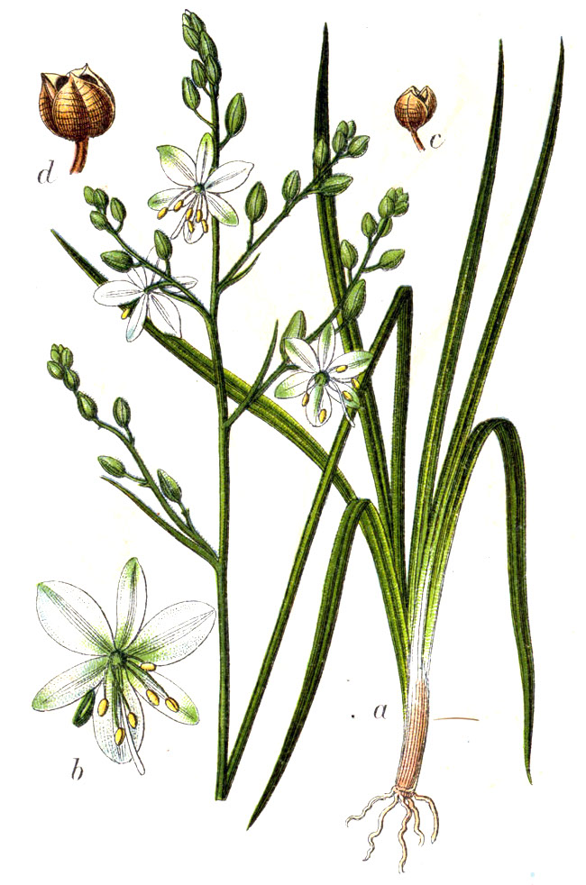 Anthericum ramosum L. Original Caption Rispige Graslilie, Anthericum ramosum